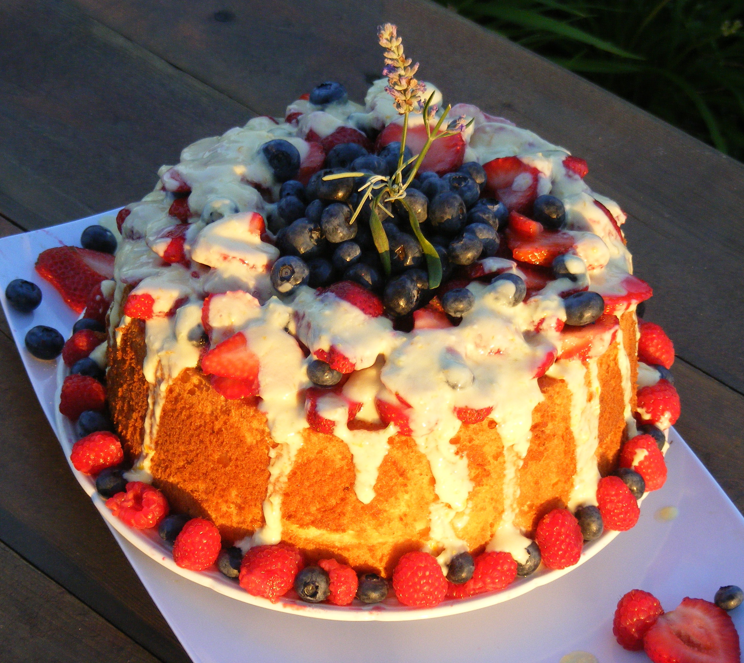 Angel food cake with berries. Birthday cake